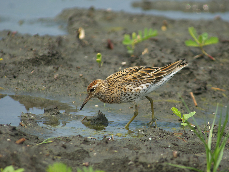 Sharp-tailed Sandpiper Calidris acuminata, Taiwan